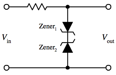 own work